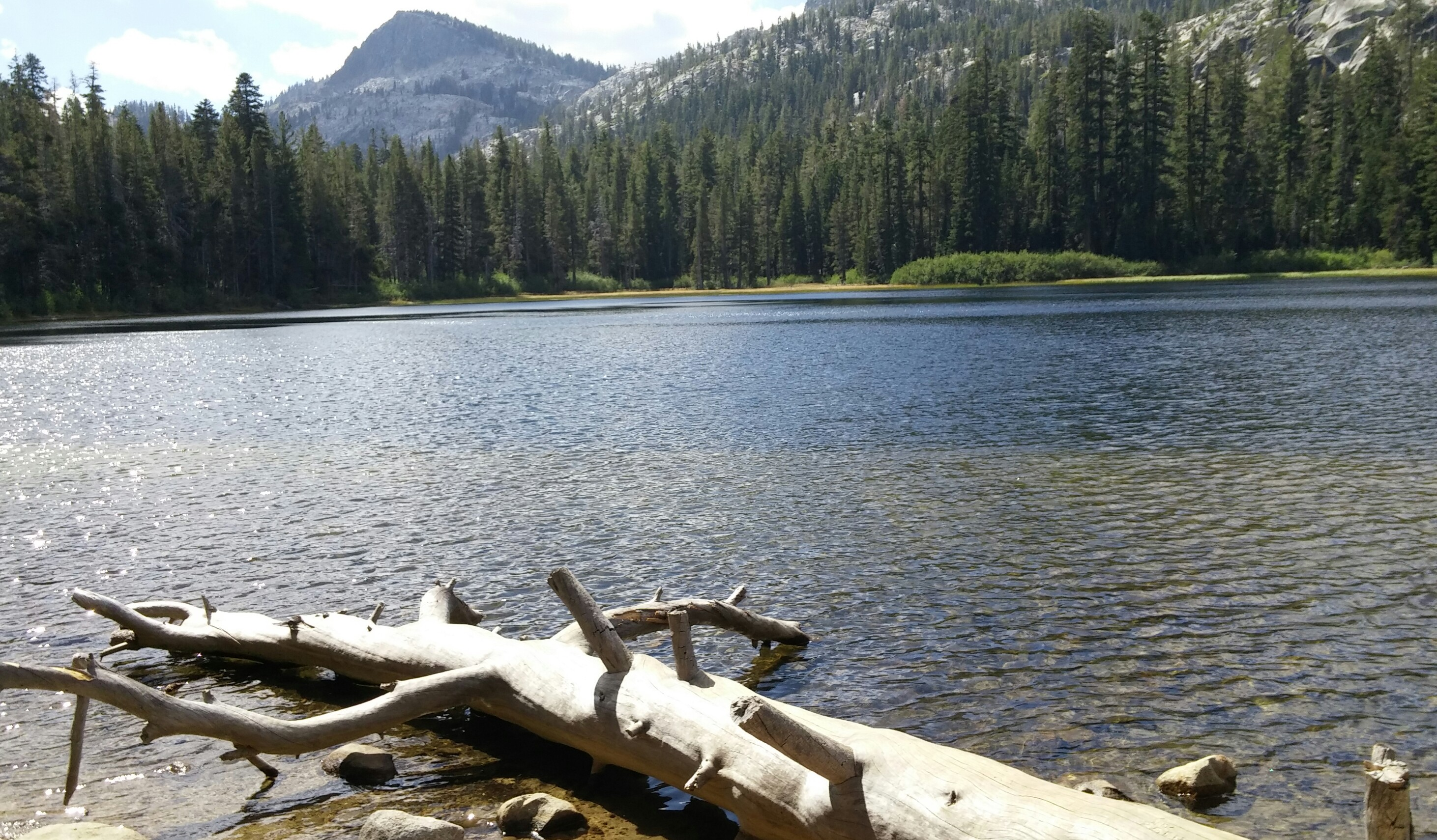 Genevieve Lake, fed by Meeks Creek, a tributary of Lake Tahoe